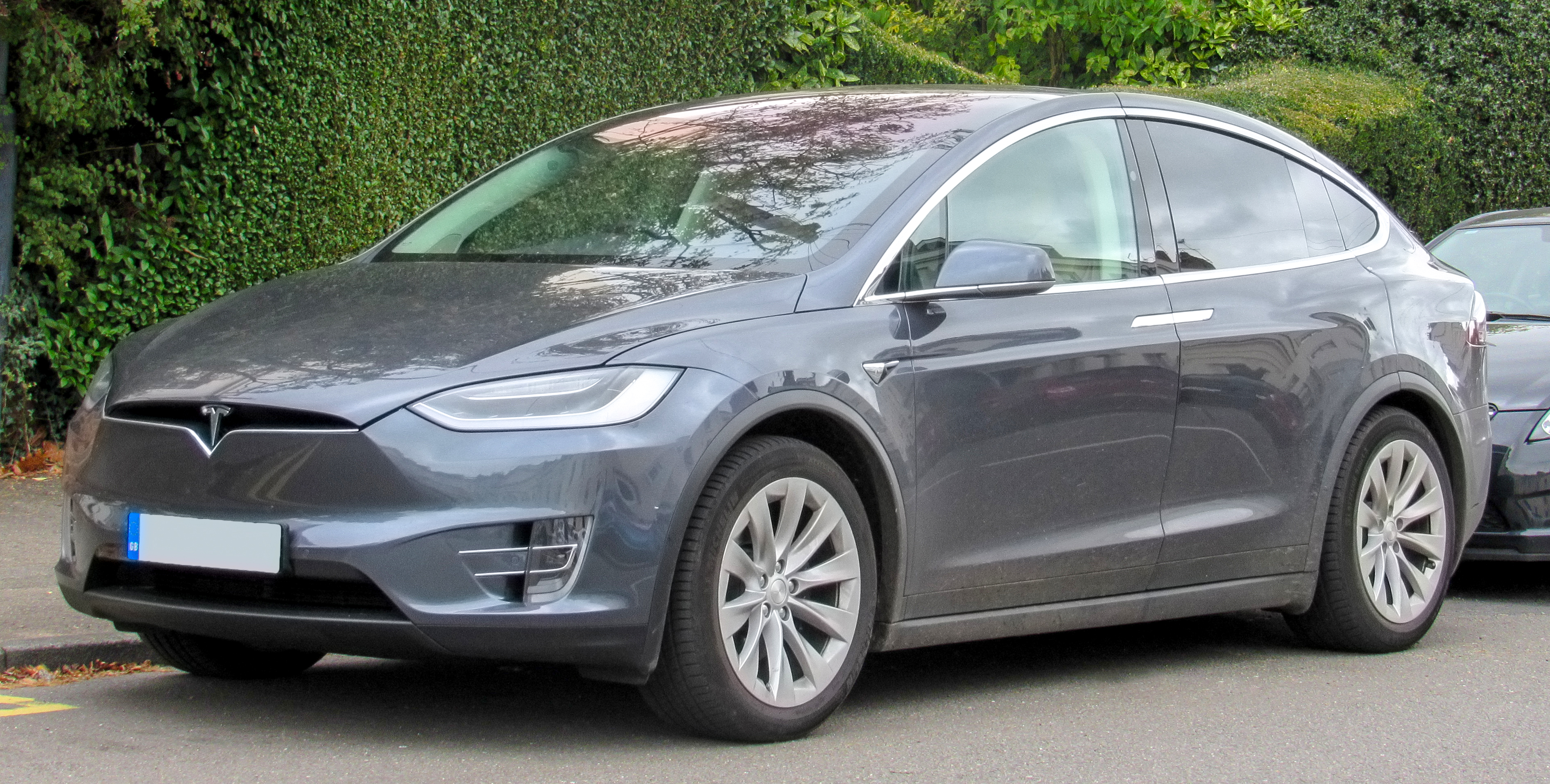 2017 Tesla Model X 100D Front Taken in Leamington Spa